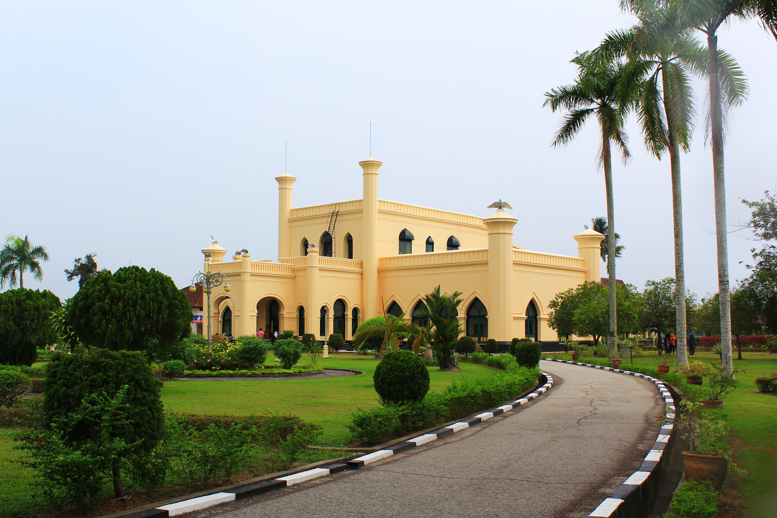 Castle of Siak Kingdom, Riau, Indonesia.